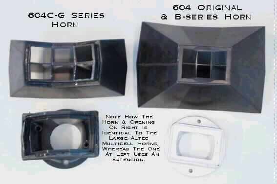 Differences between the original multicellular horn used on the Altec 604 and the one used on the Altec 604C-G